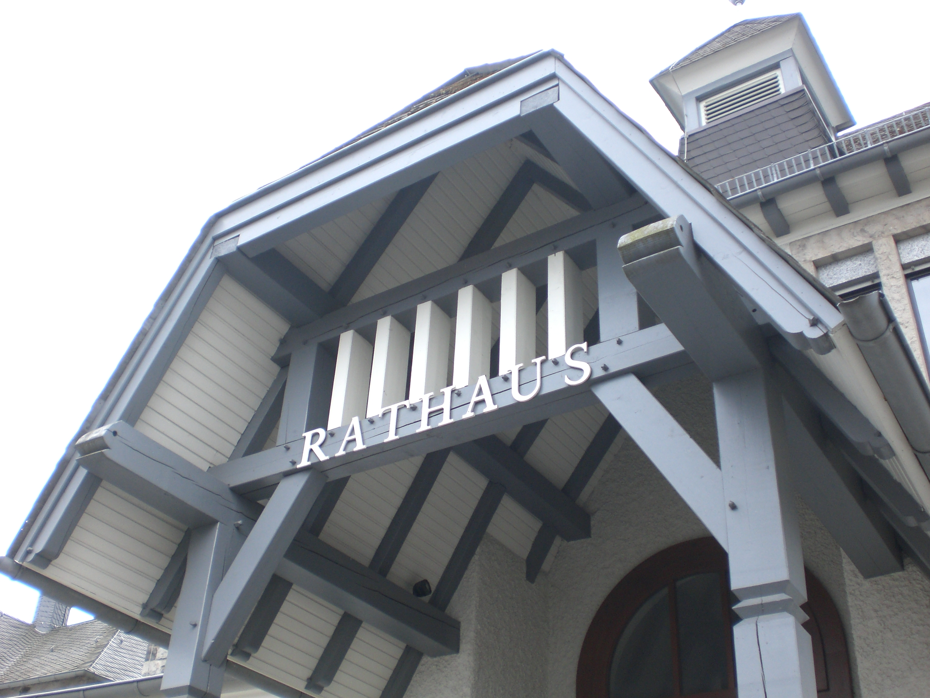 Staudt, front of town hall